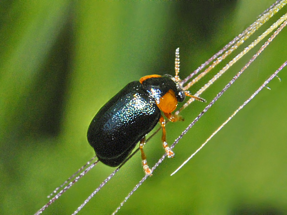 Smaragdina affinis. Cerreto R., Alessandria, Italy